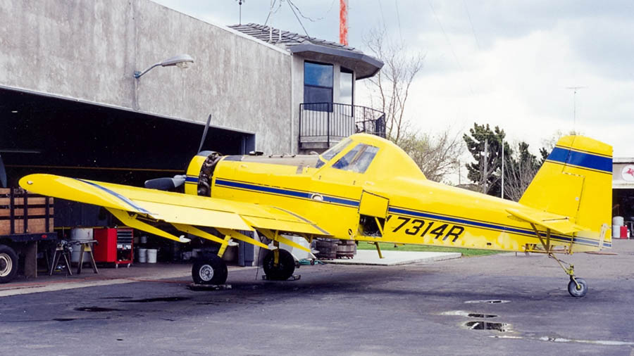 Precissi Flying Service, Lodi, CA, March 1998.